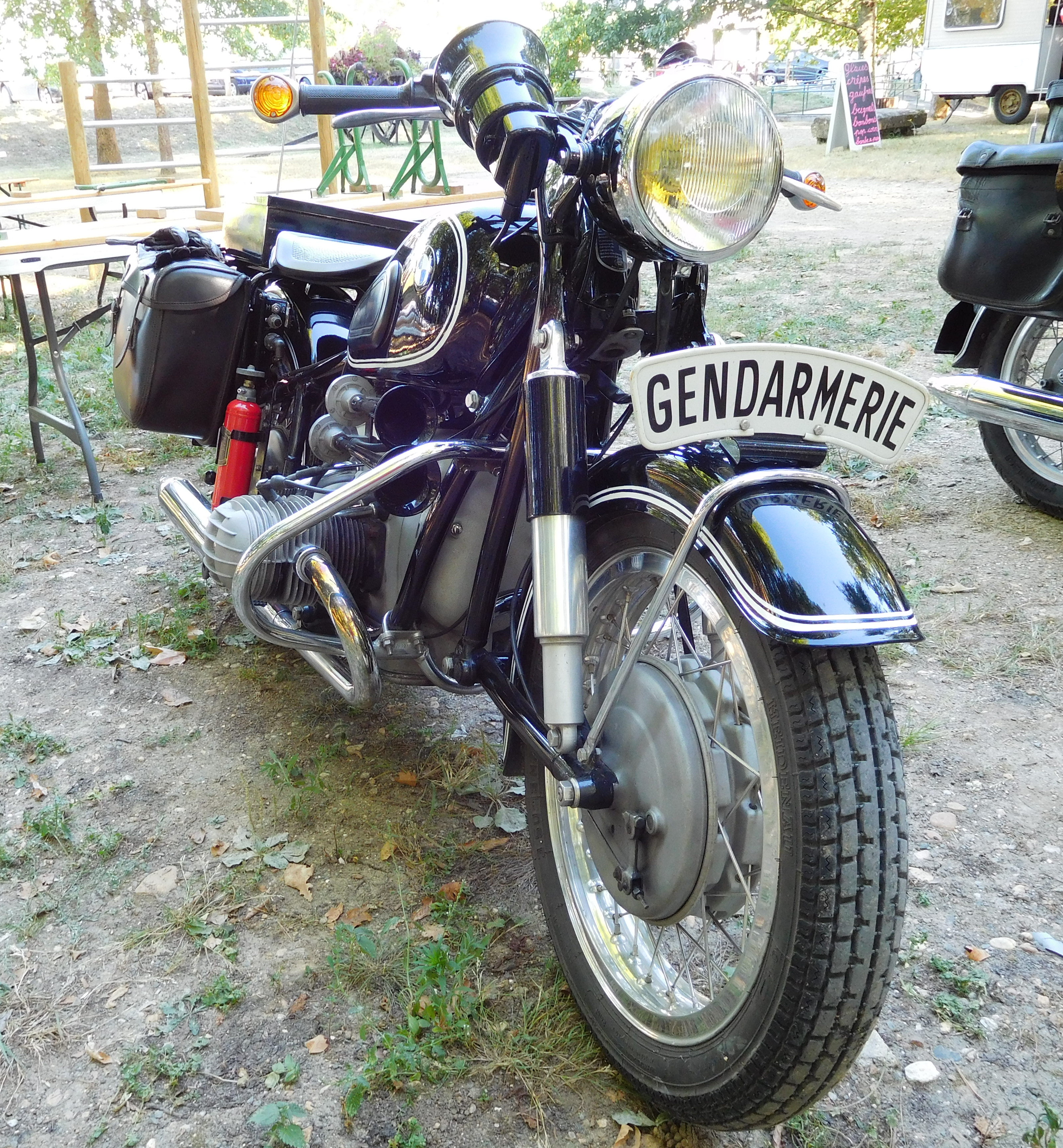 BMW series 2 motorcycle of the National Gendarmerie, equipped with Heidenau tires. In Voulgre park, Mussidan (Dordogne, France).